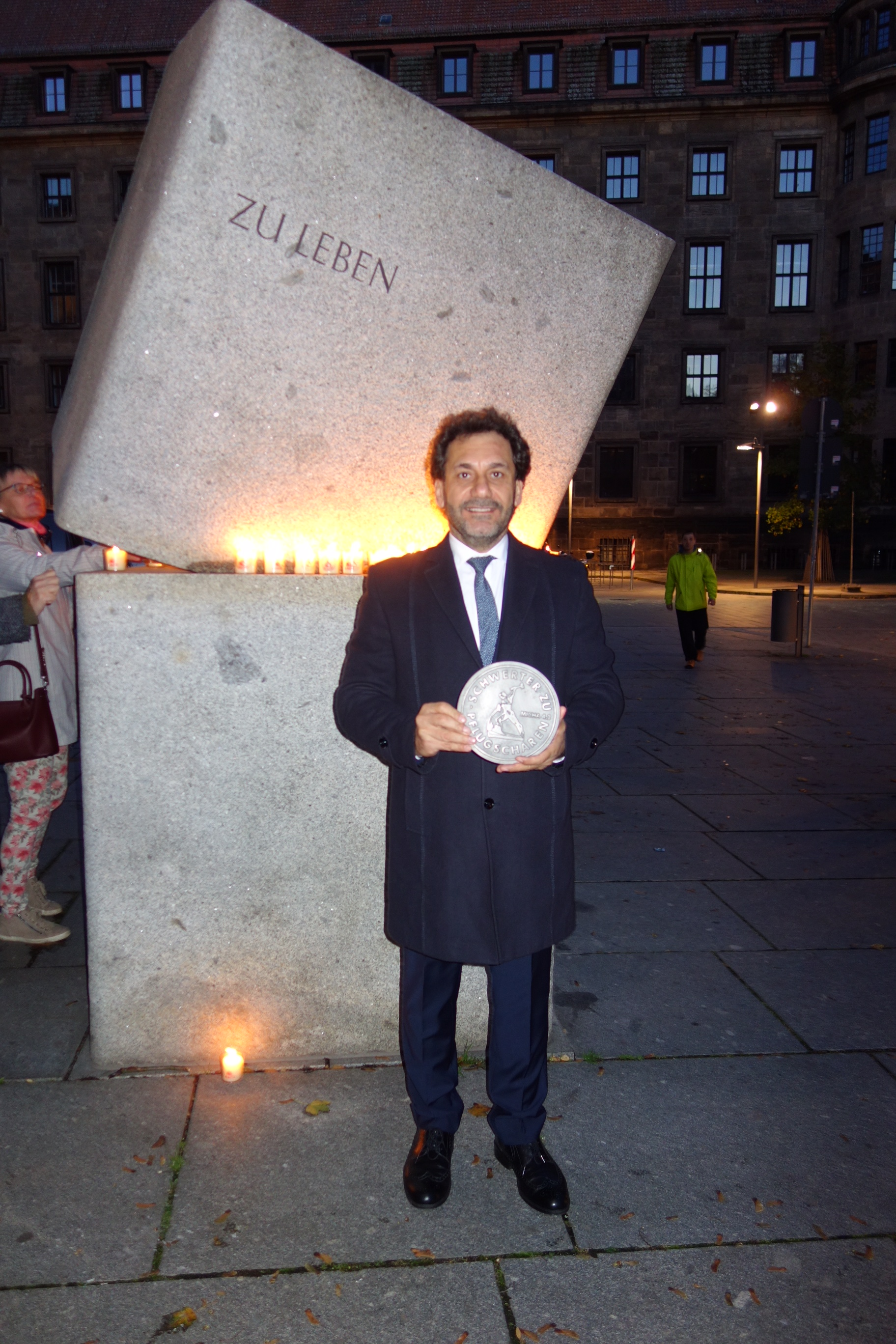 Haroutioun Selimian receives “Swords into Plowshare” award